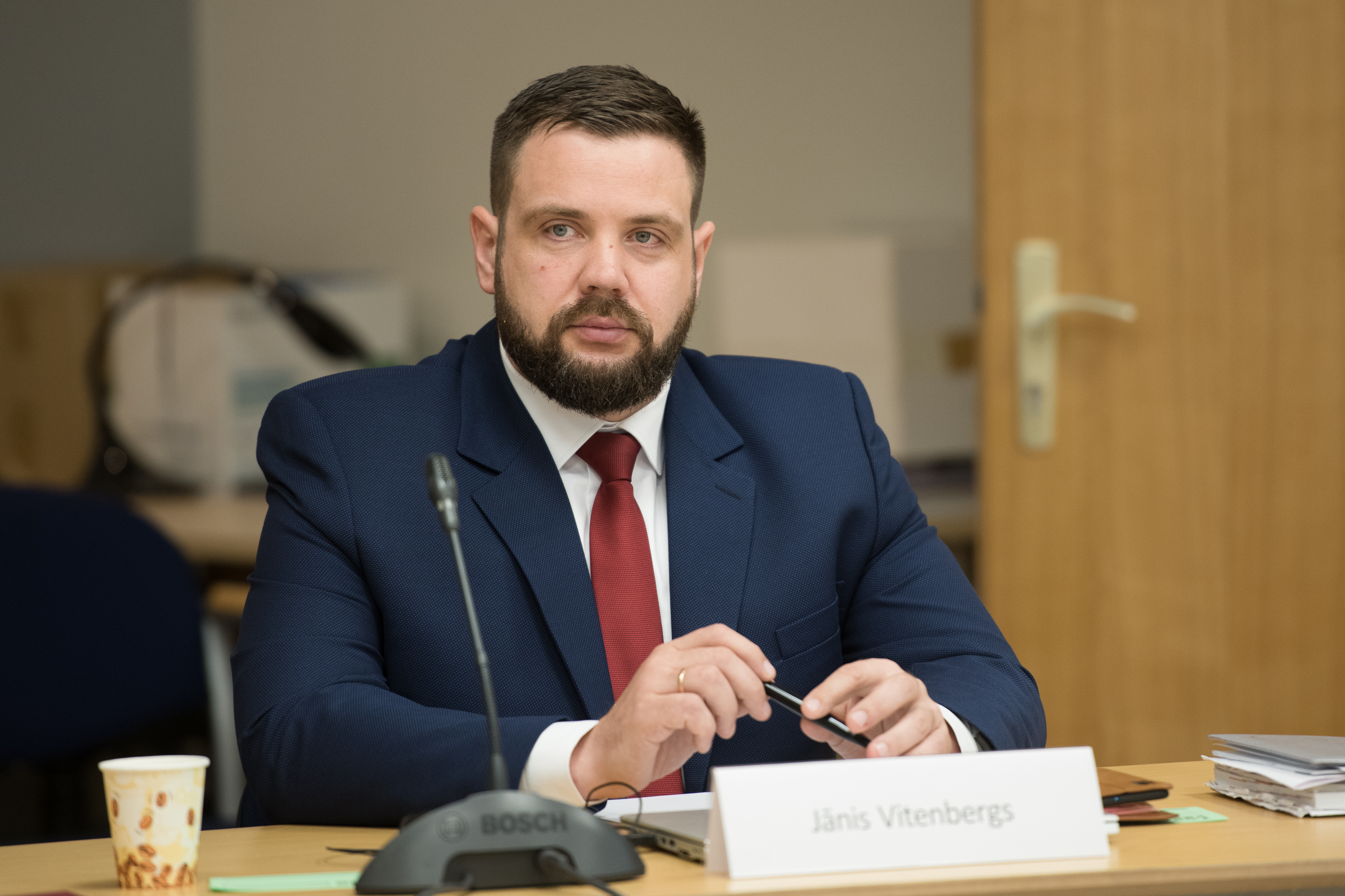 2020.gada 2.aprīlis. Darbs Saeimas sēdē. Foto: Ieva Ābele, Saeima Izmantošanas noteikumi: saeima.lv/lv/autortiesibas